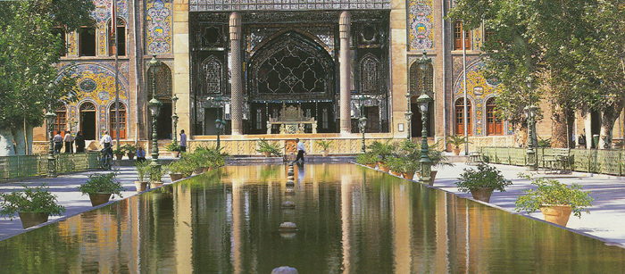 Golestan Palace, Tehran, Iran. Late 1700s